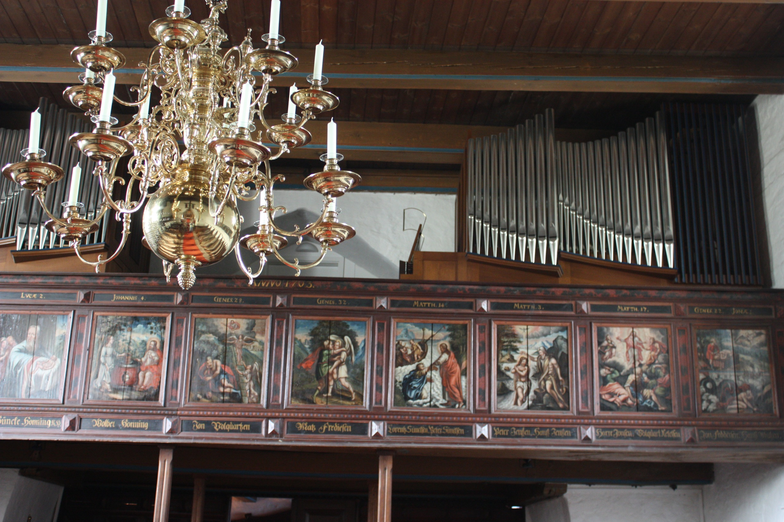 Husum-Schobüll, Schobüller Dorfkirche This is a photograph of an architectural monument.